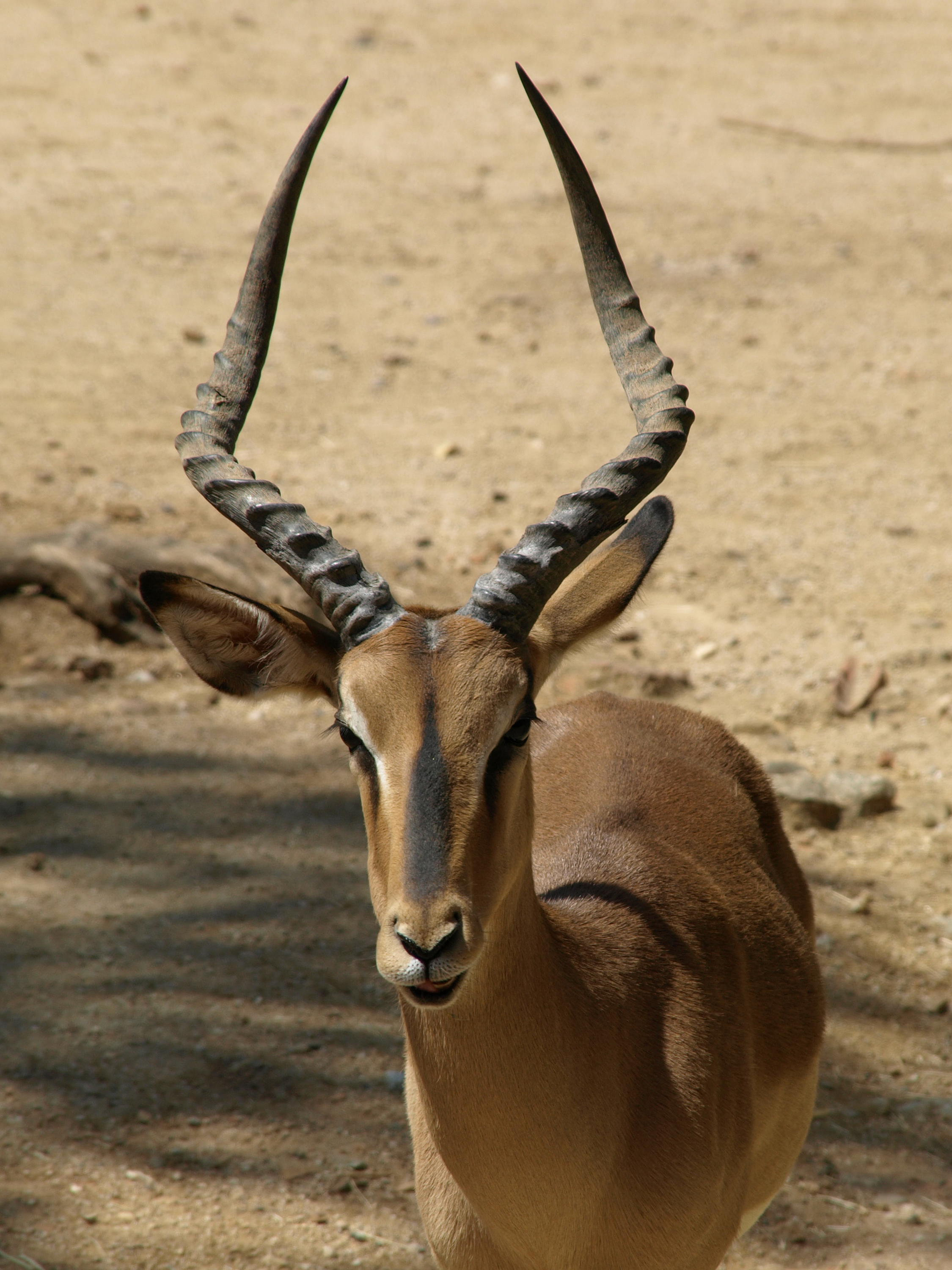 Impala (Aepyceros melampus) - Barcelona (Spain)